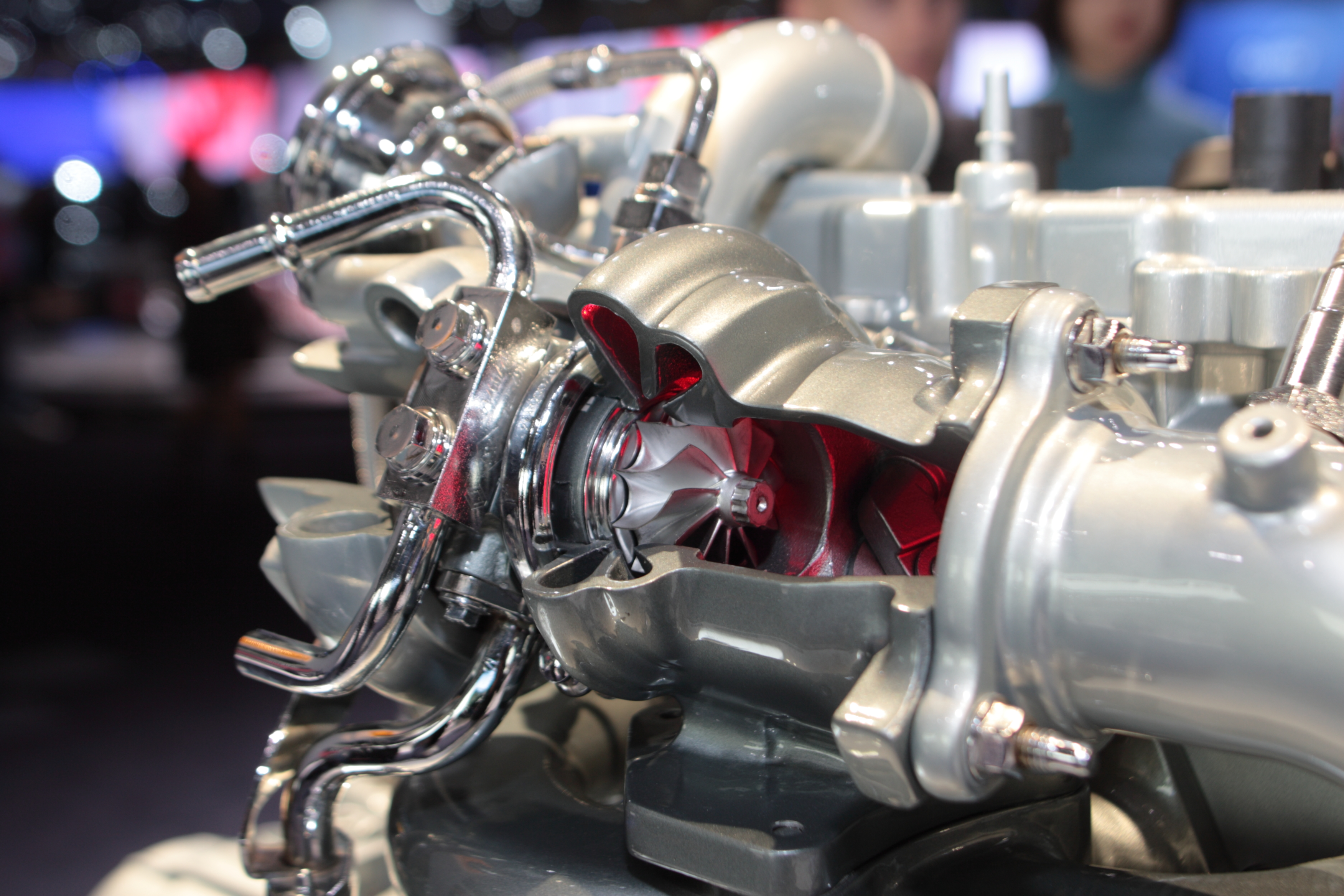 Cut-out model of a twin-scroll turbocharger made by Mitsubishi for the Renault F4Rt engine